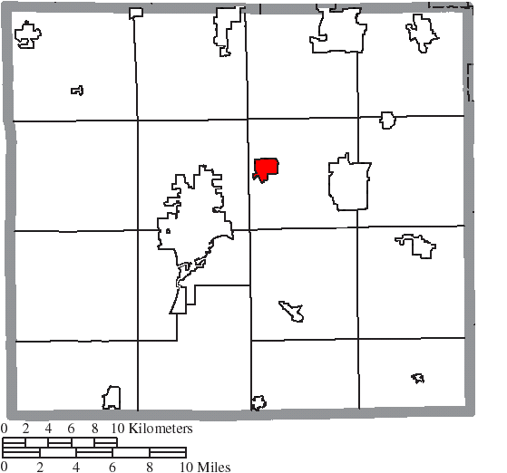 Map of the municipal and township boundaries of Wayne County, Ohio, United States, as of the 2000 census, with the location of the village of Smithville highlighted. Township borders are shown only in unincorporated areas in order to differentiate incorporated and unincorporated areas more clearly.